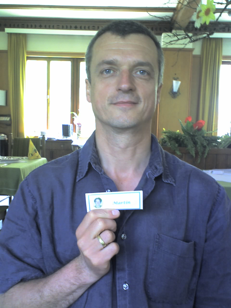 Martin Schmidt, sculptor and object artist.